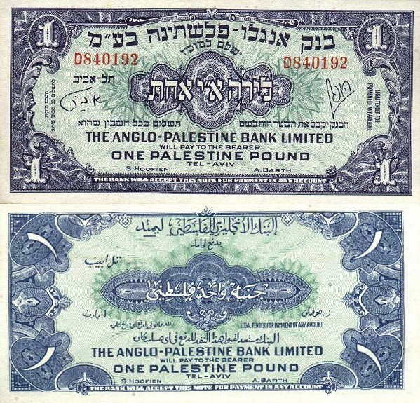 Obverse & Reverse side of a 1 Palestine Pound bill, paper.